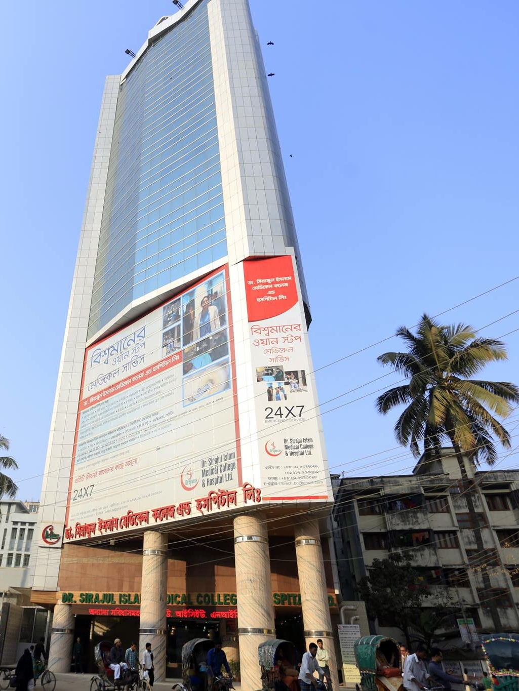 A beautifully arranged modern 21 storied 500 bedded hospital in the Dhaka City.